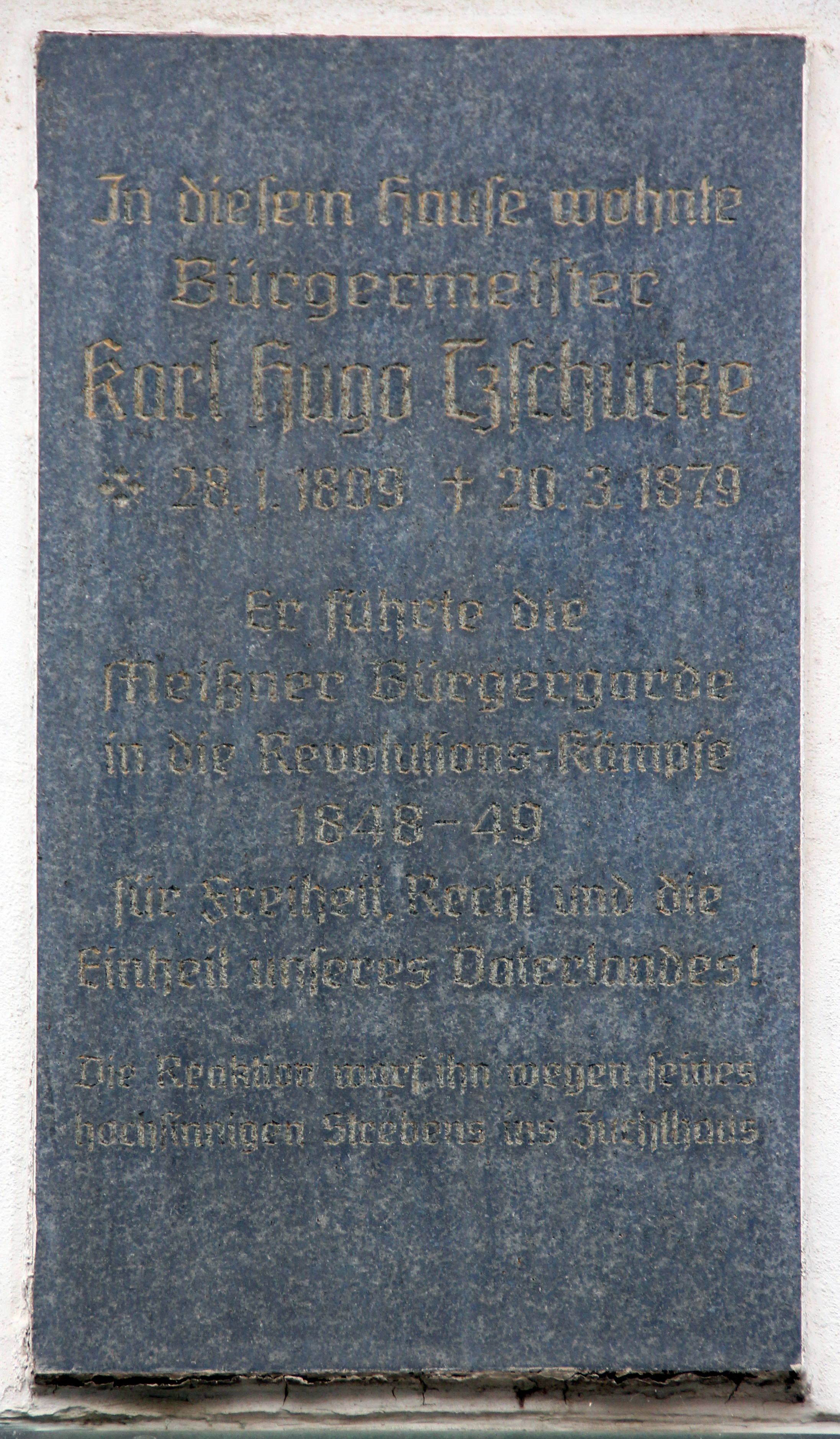 Memorial plaque, Carl Hugo Tzschucke, Markt 9, Meißen, Germany